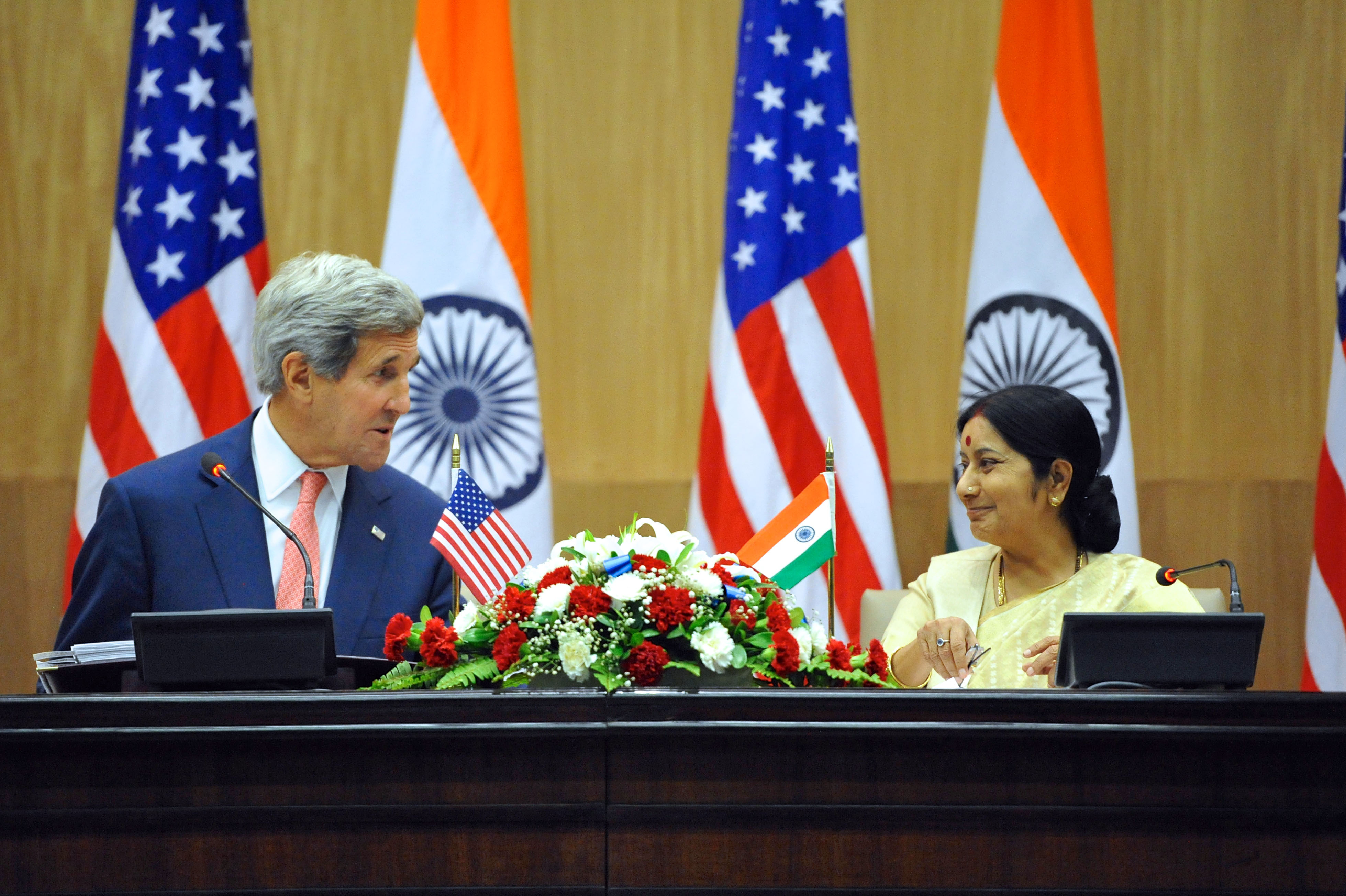 U.S. Secretary of State John Kerry thanks Indian Minister of External Affairs Sushma Swaraj while addressing reporters during a news conference that followed the plenary session of a Strategic Dialogue between the two countries in New Delhi, India, on July 31, 2014. [State Department photo/ Public Domain]